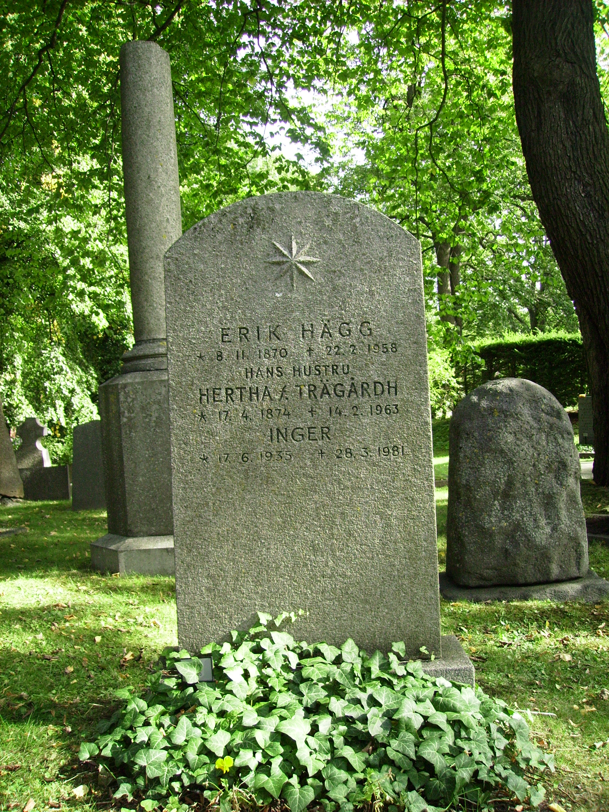 Picture of Erik Hägg's grave at Galärvarvskyrkogården in Stockholm